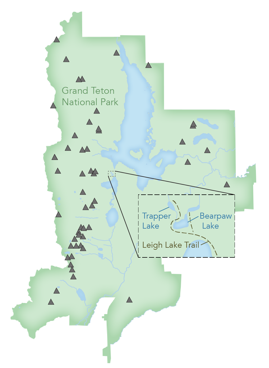 Shows the location of Trapper Lake in Grand Teton National Park